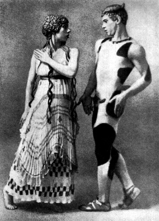 Nijinsky as the faun, photographs by Adolf de Meyer 1912